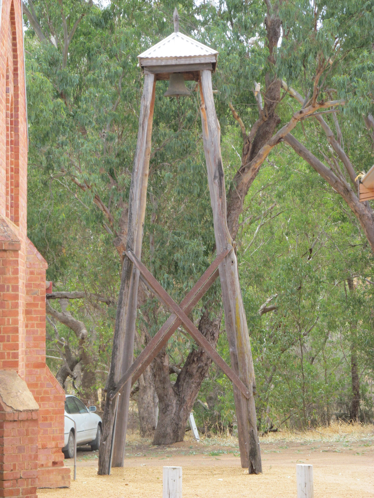 Wooden bell tower at Connor's Mill, Toodyay, Western Australia